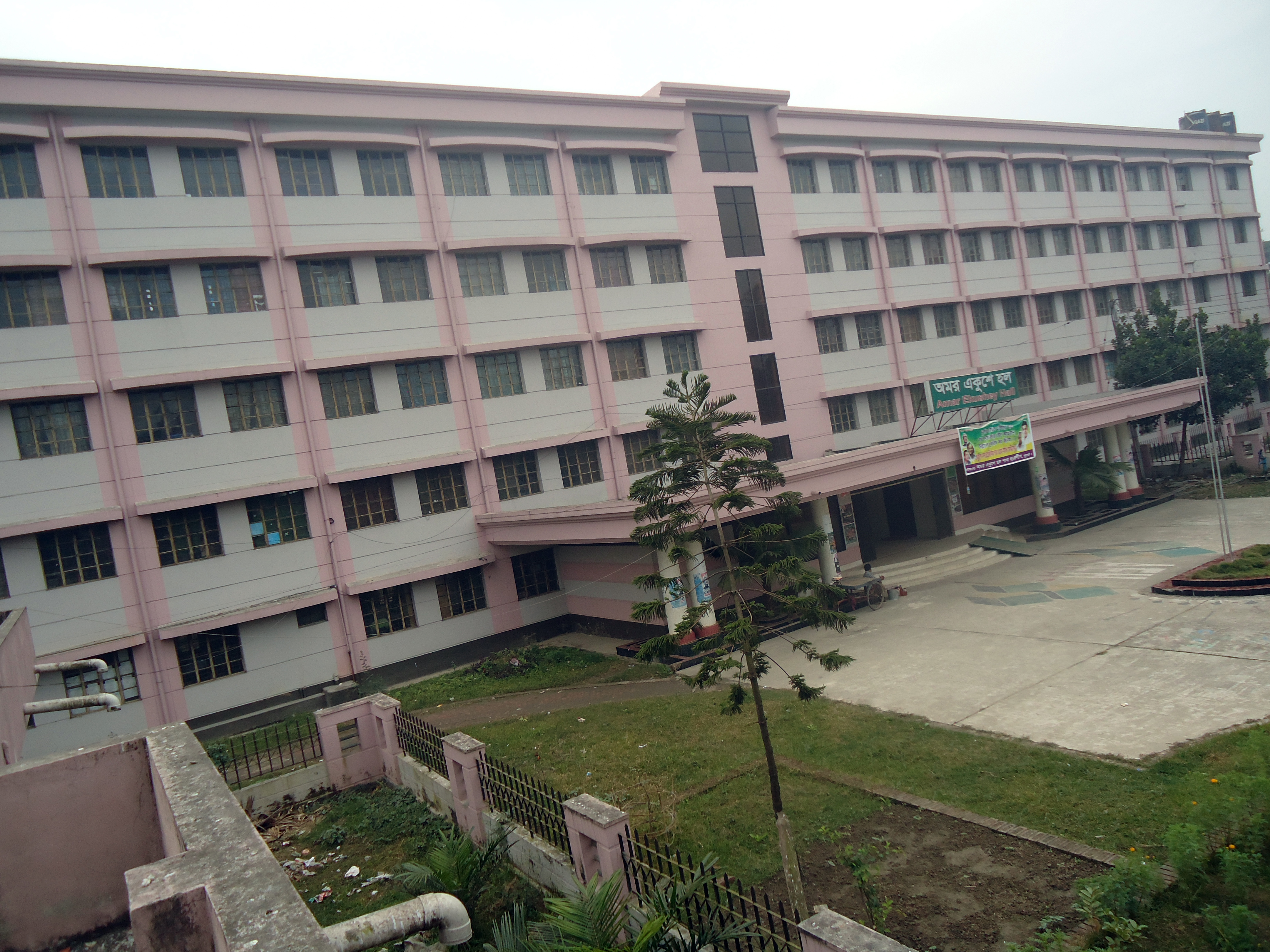 Amar Ekushe Hall at KUET